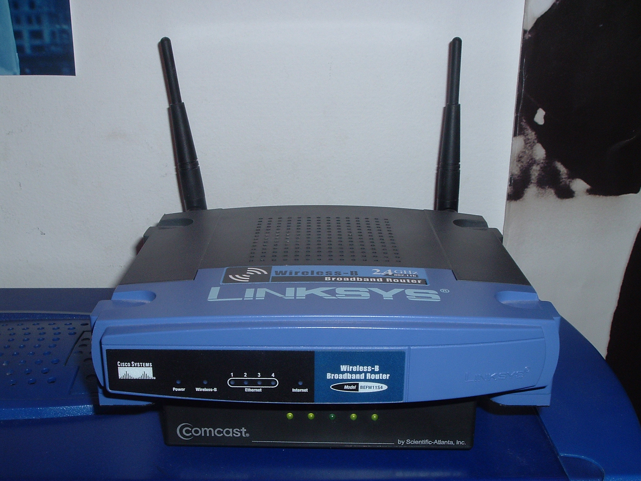 Linksys BEFW11S4 router sitting on Comcast cable modem.